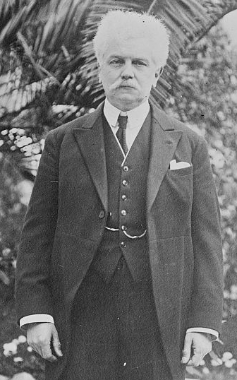 Belgian Prime Minister Henri Jaspar (1870-1939)